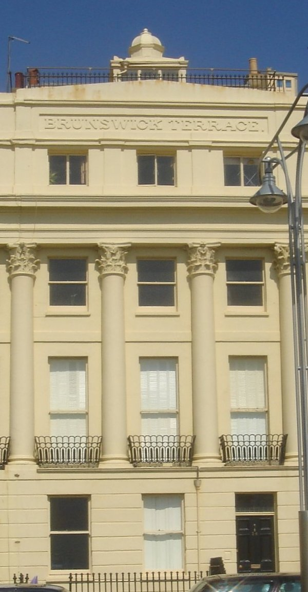 26 Brunswick Terrace, Hove, Sussex, England, seen from the south. The octagonal cupola on the roof was a private synagogue used by Philip Salomons in the mid-19th century.